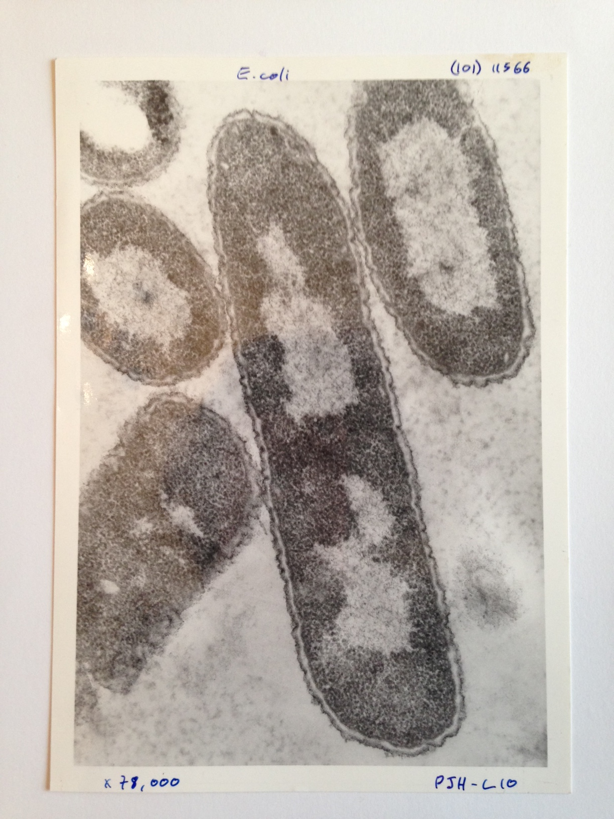 An electron-micrograph of sections of the bacterium Escherichia coli (x78,000). this is a rod-shaped single cell organism, and the sections are slices ( about 50nm thick) at various angles through the cell.